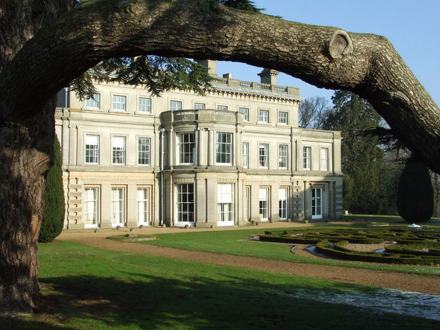 Sue Ryder Care Home The Sue Ryder Care Home within Chantry Park Ipswich, Suffolk.